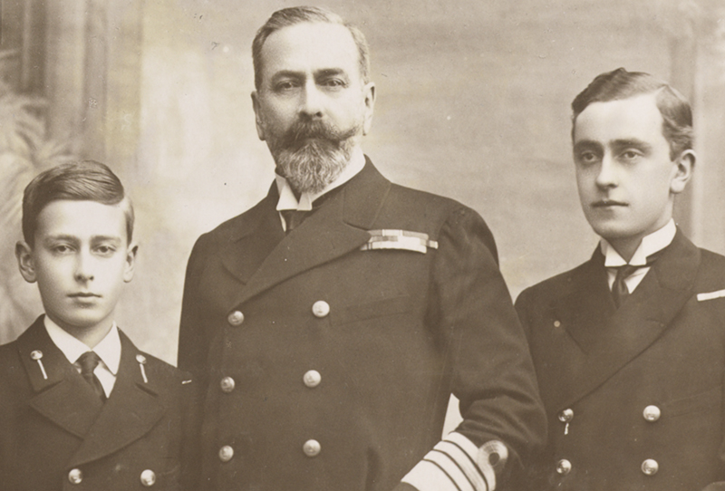 Prince Louis Alexander of Battenberg with his two sons: Louis (on the left) and George (on the right)